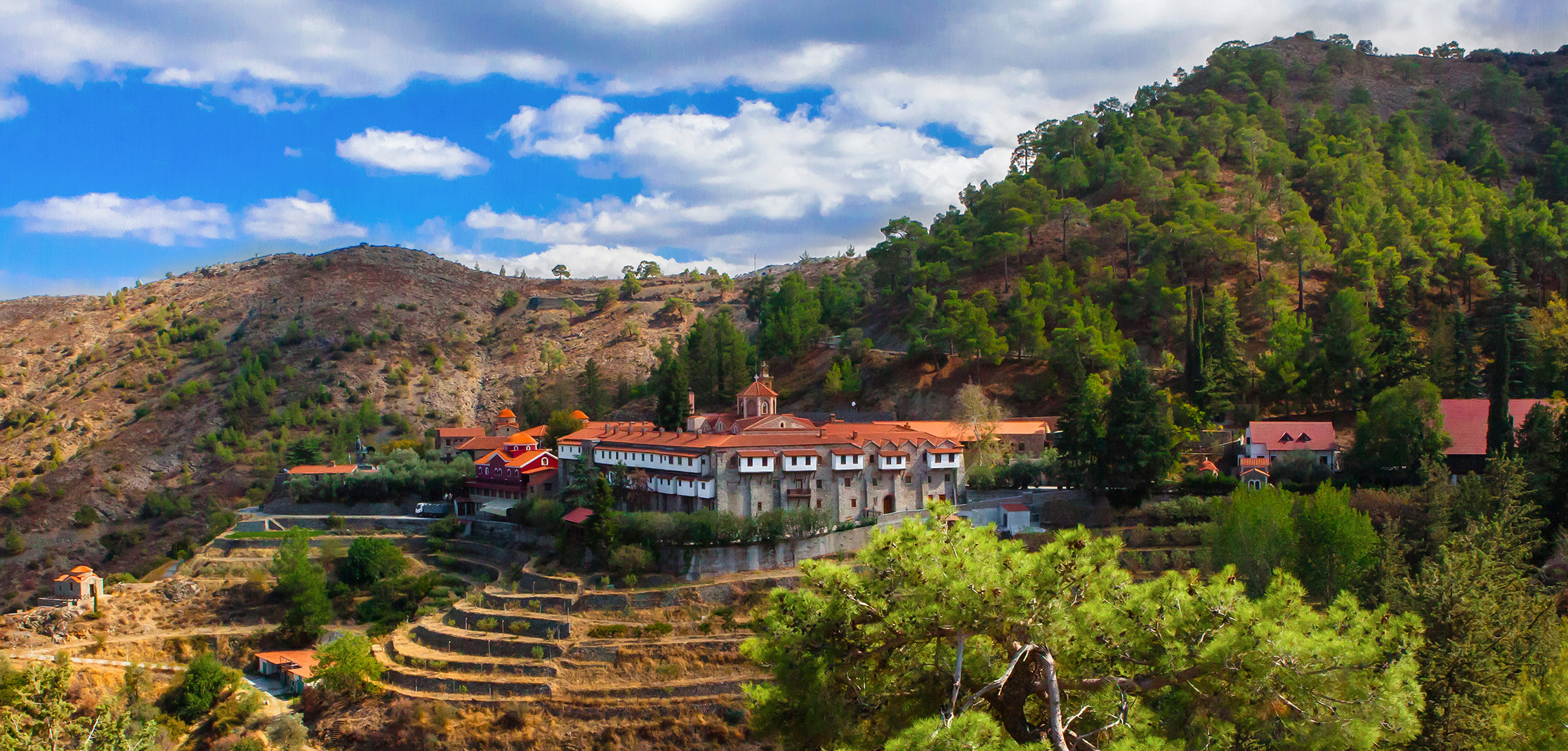 Machairas Monastery in Cyprus